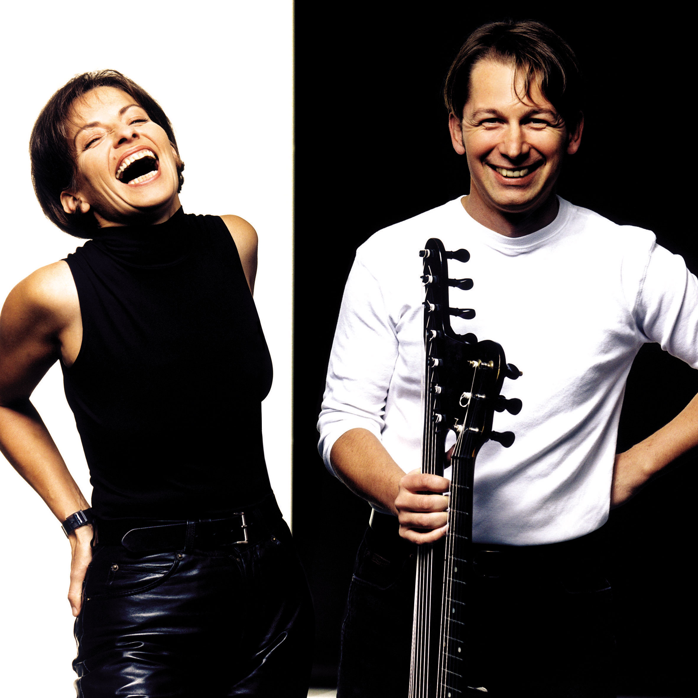 Steinberg and Havlicek